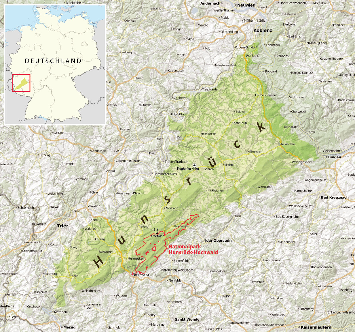 Locator map of the Hunsrück